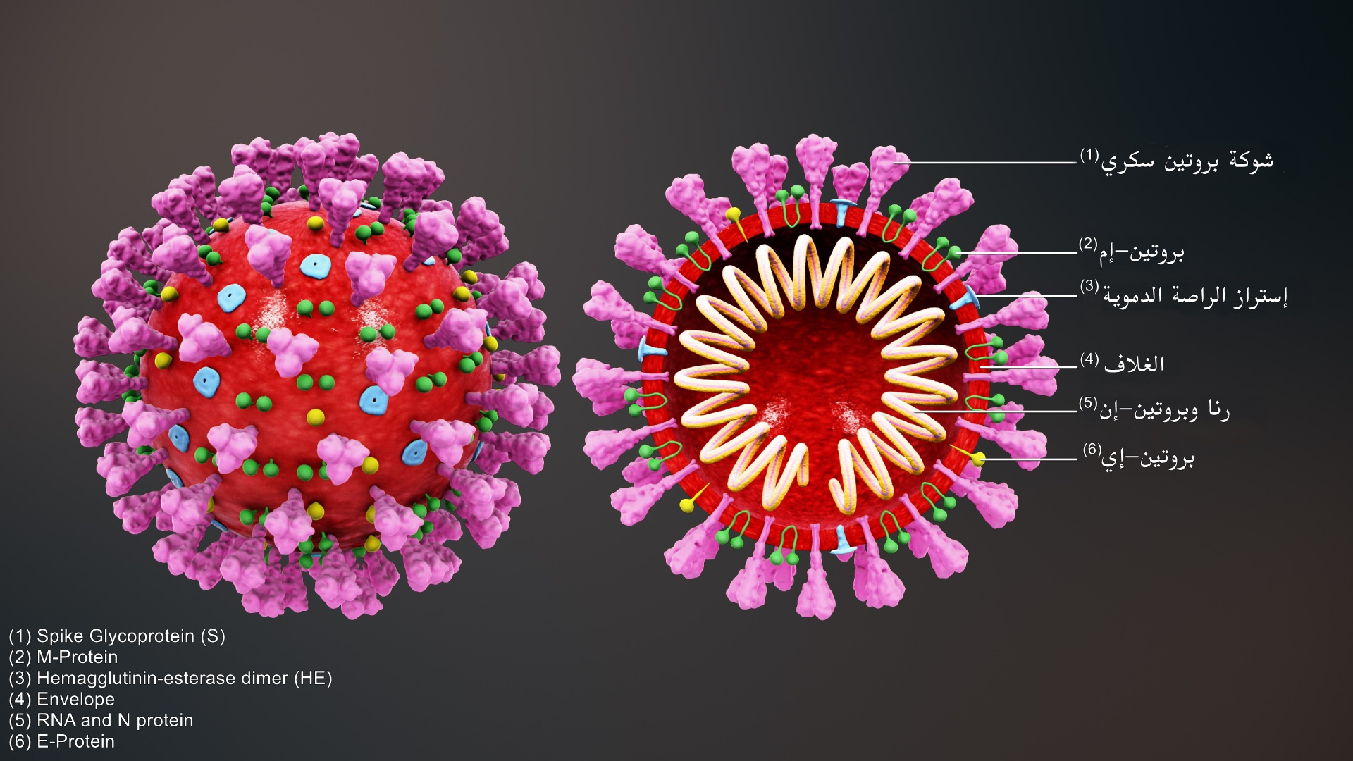 3D medical animation still shot showing the structure of a coronavirus